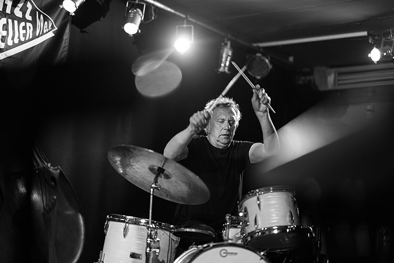 Willi Kellers at Jazzkeller 69 Aufsturtz in Berlin 2018